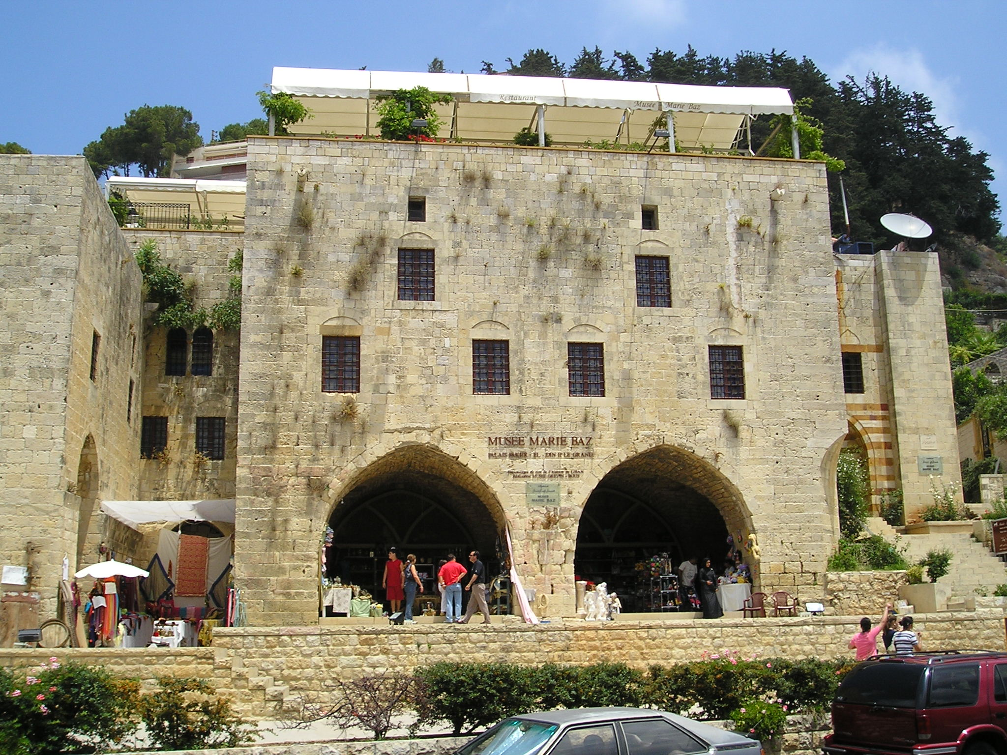 Deir al-Qamar, Lebanon - Fakhredine Palace, today Marie Baz wax museum